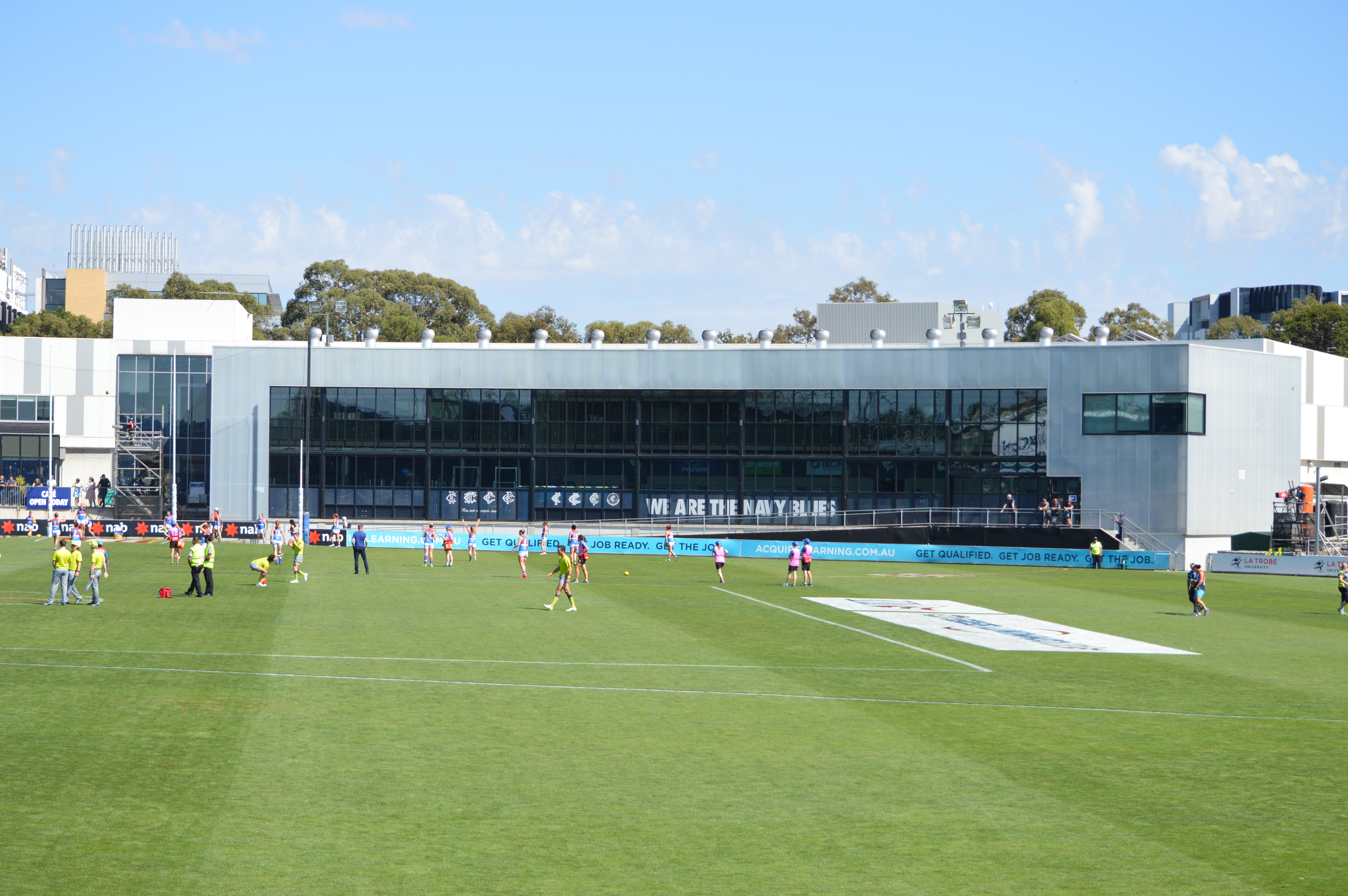 IKON Park - Carlton Admin building 2017